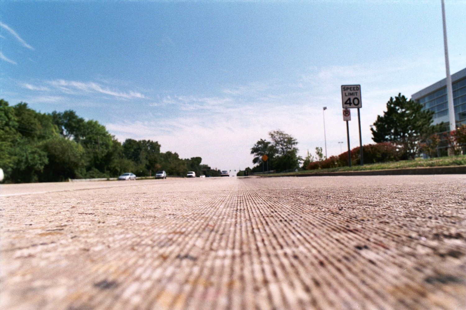 Close up of diamond ground pavement in Chicago, Illinois. Taken from contractor. 349KB, 256ppi